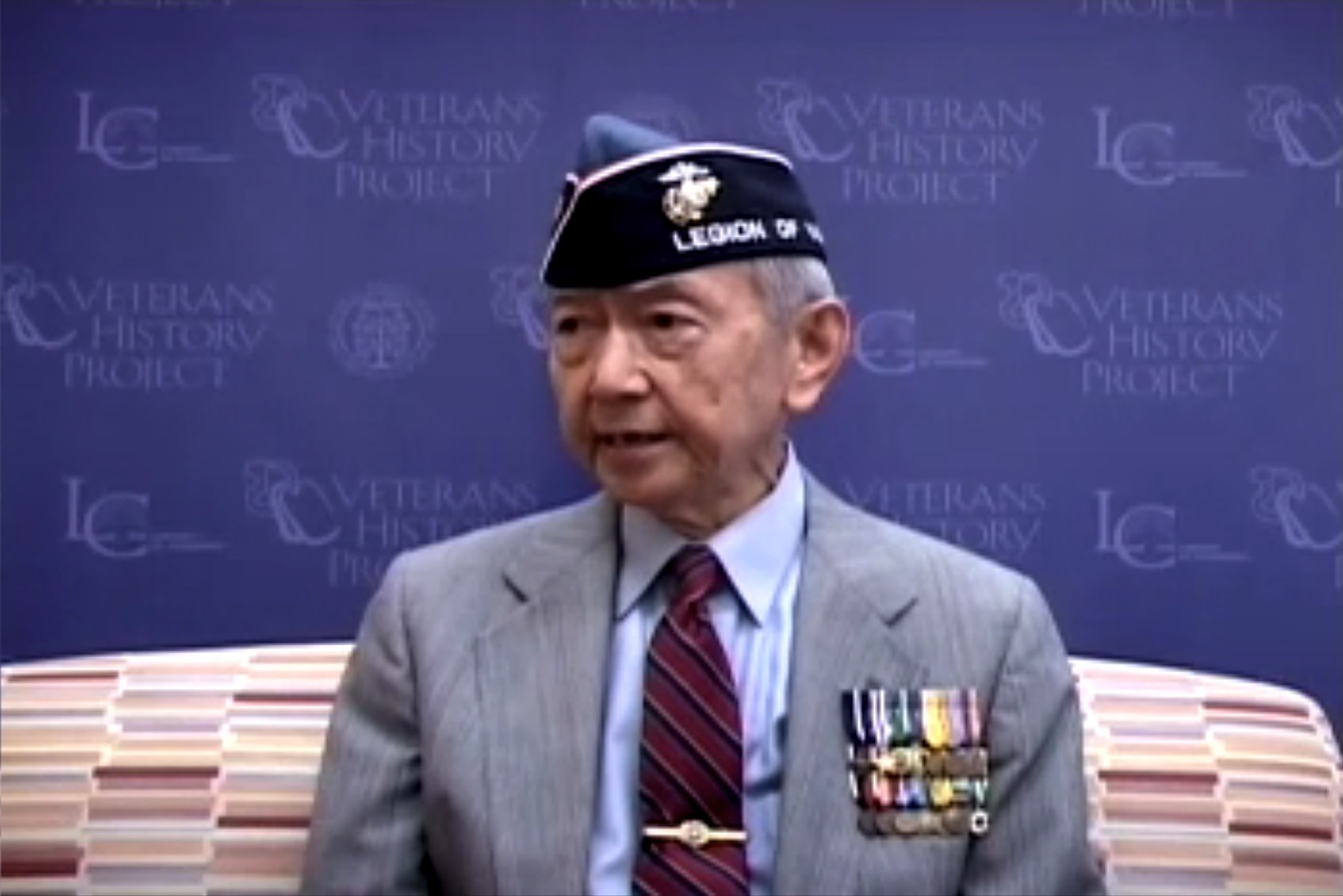 Kurt Lee during his interview at the Library of Congress